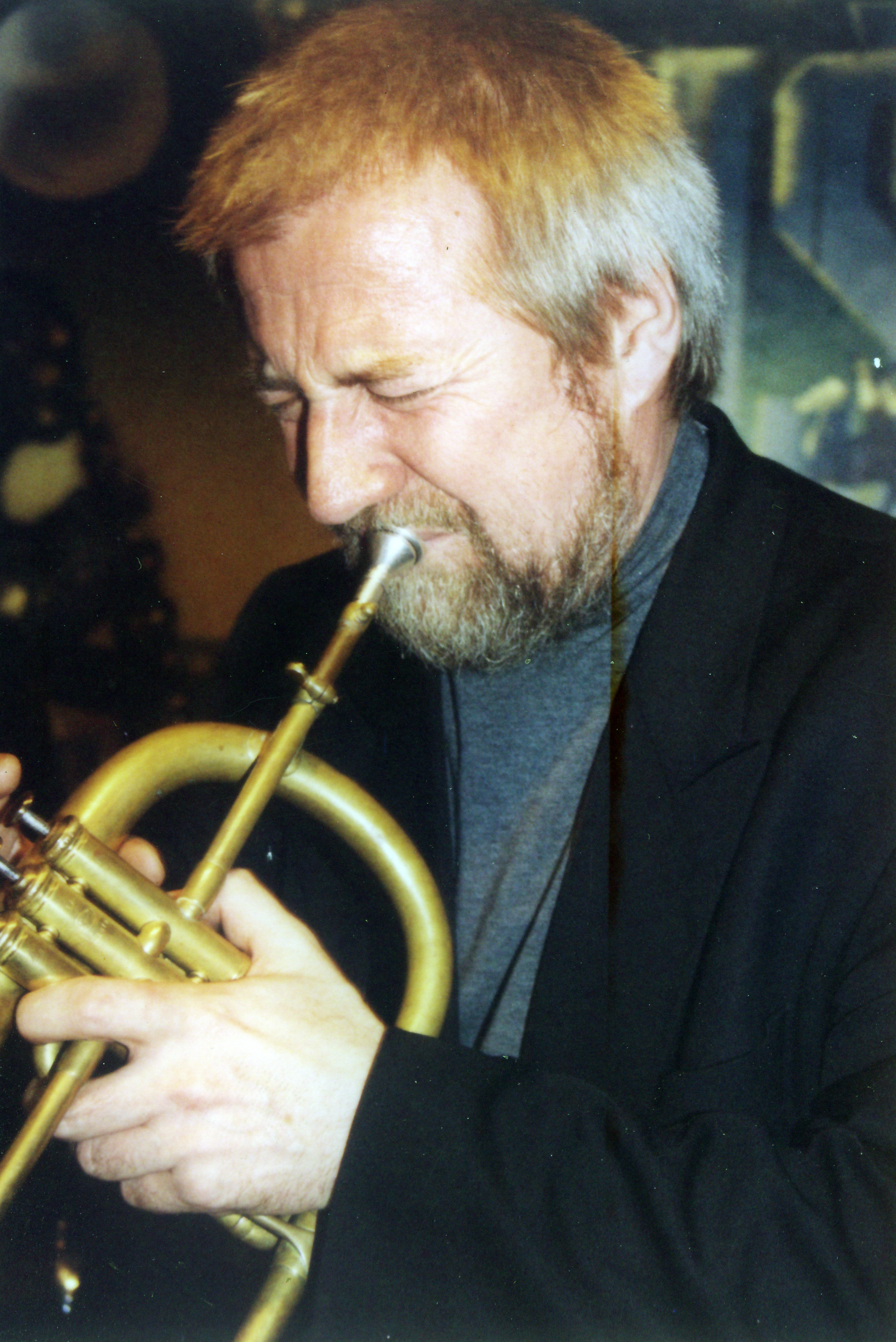 Stjepko gut, Serbian Jazz musician, Nišville jazz festival, early 2000's